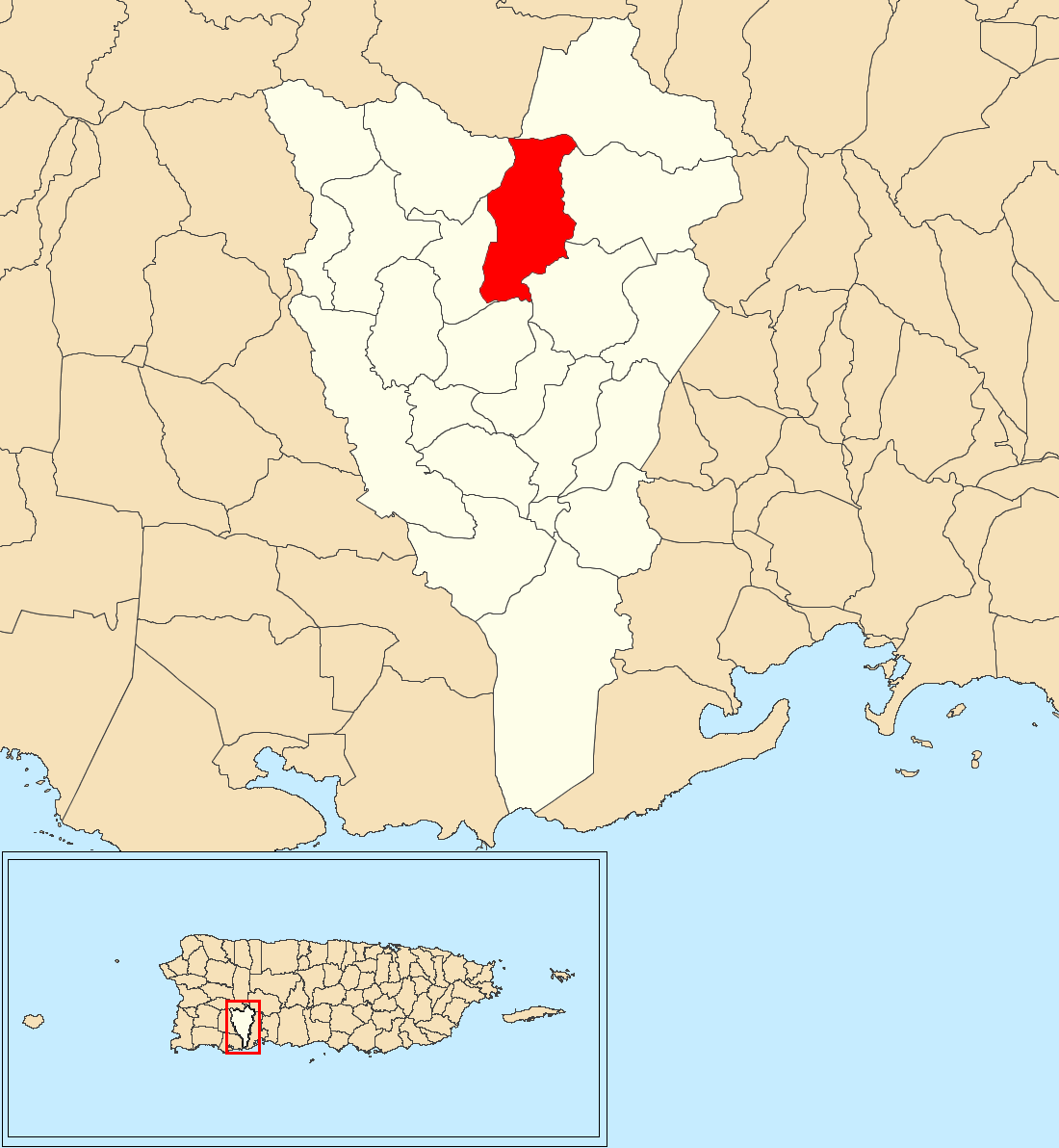 Naranjo, Yauco, Puerto Rico locator map